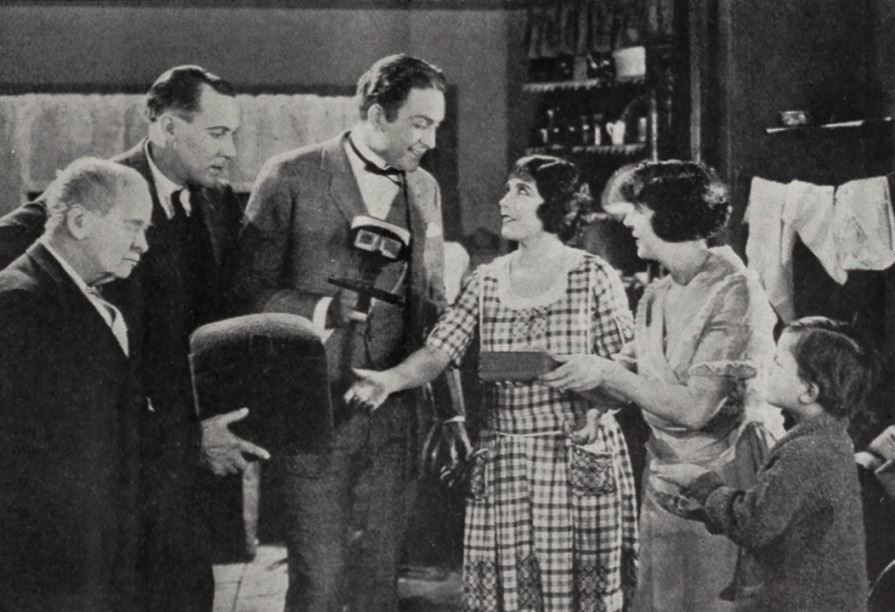 Still from the American drama film The Six-Fifty (1923) with Orville Caldwell and Renée Adorée, on page 11 of the October 20, 1923 Universal Weekly.